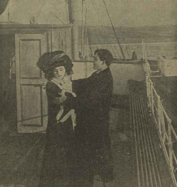 From the program for the silent movie: Den hvide Slavehandel (DK/US: 1910). Marketing pamflet